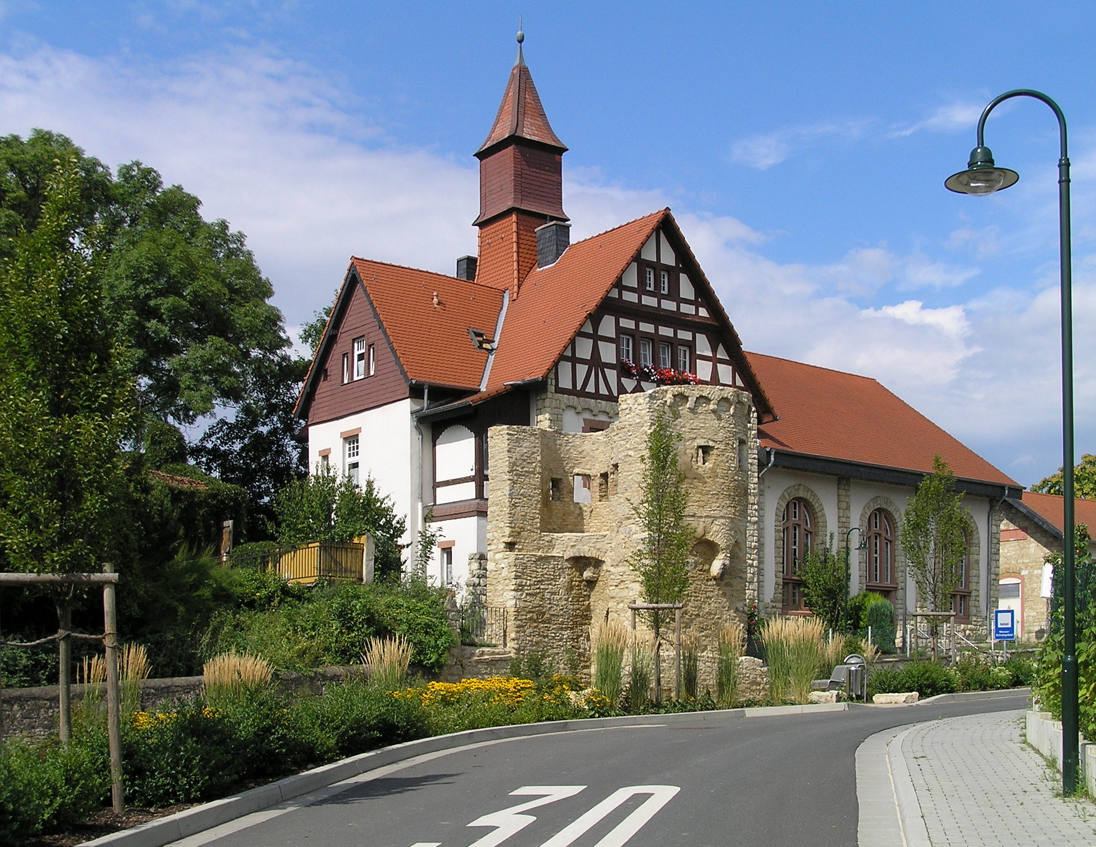 Old E-work with Uffhubgate and new-formed green area and new by-pass road